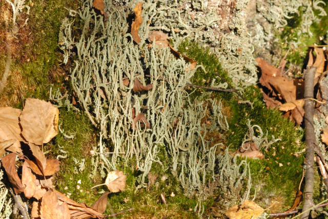 Picture taken in Commanster, Belgian High Ardennes . Species: Cladonia squamosa